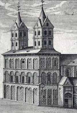 Westwork of Saint Bartholemy Church, Liège, Belgium. Detail of an engraving by Remacle Le loup, 1735. (this is a detail of a file uploaded by User:Jrenier on 18 December 2005)